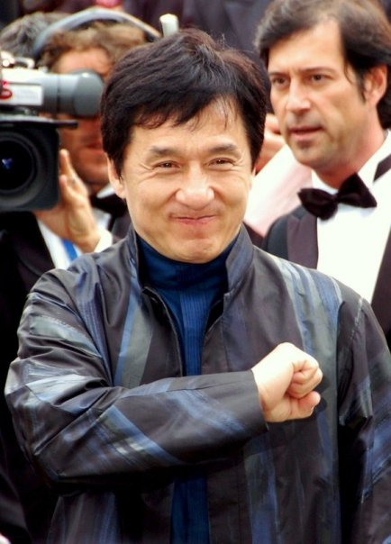 Jackie Chan at the Cannes Film festival.